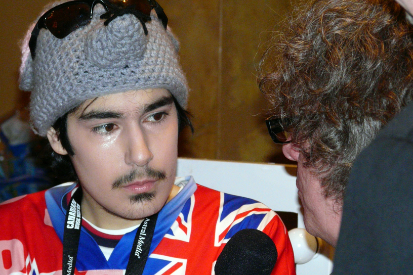 Check out: [1] for more exclusive Kayvon Pics